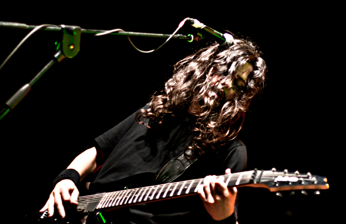 Leo Fernández